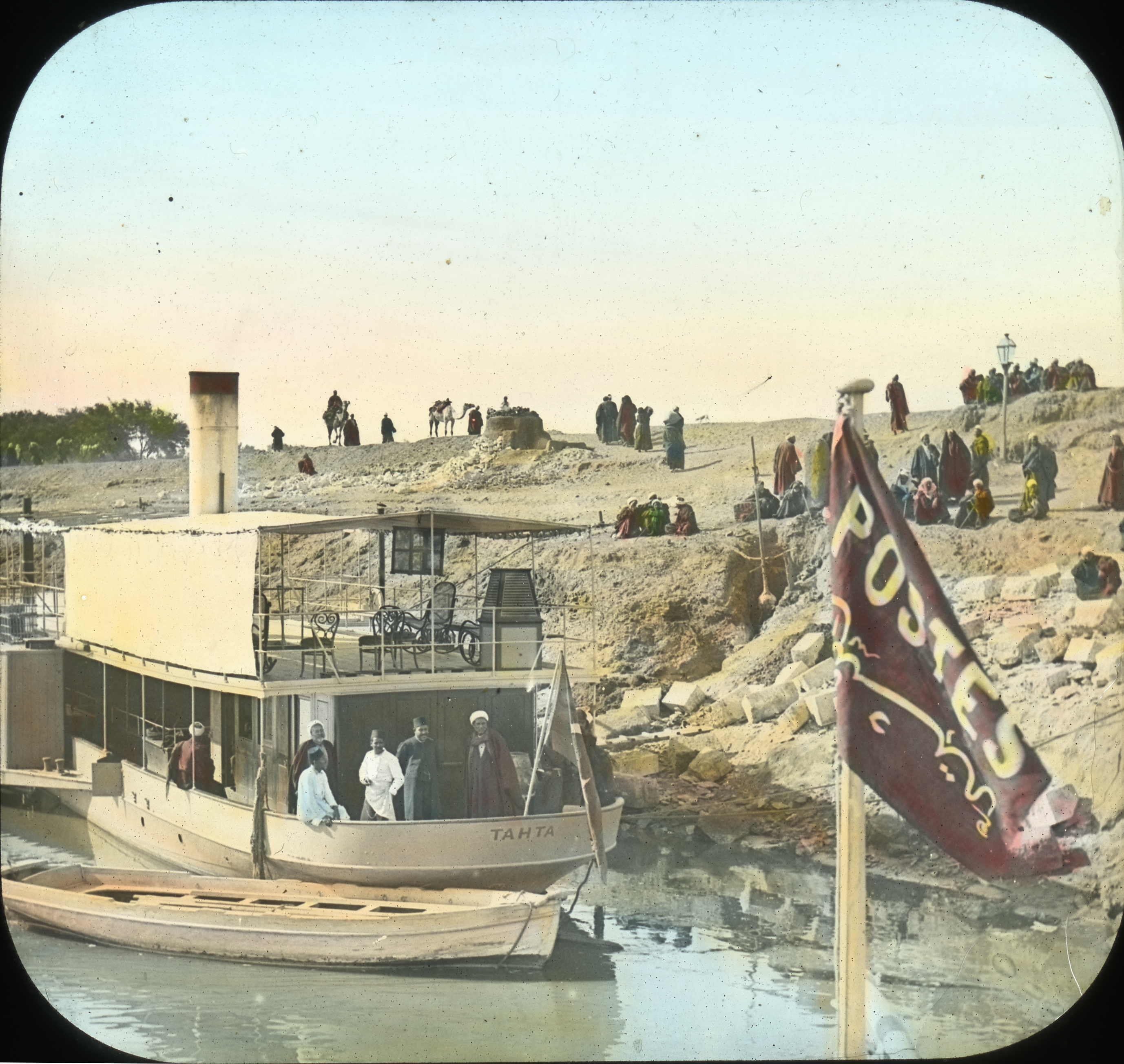 Lantern Slide Collection: Views, Objects: Egypt. General Views\People [selected images]. View 055: Egypt - Arrival of Post Boat, Girgeh., n.d., T. H. McAllister, Manufacturing Optician. 49 Nassau Street, New York. Brooklyn Museum Archives (S10|08 General Views_People, image 9798). علم البوستة المصرية مكتوب عليه بوستة مقلوبة Help us map this image by using Suggestify to suggest a location for it.